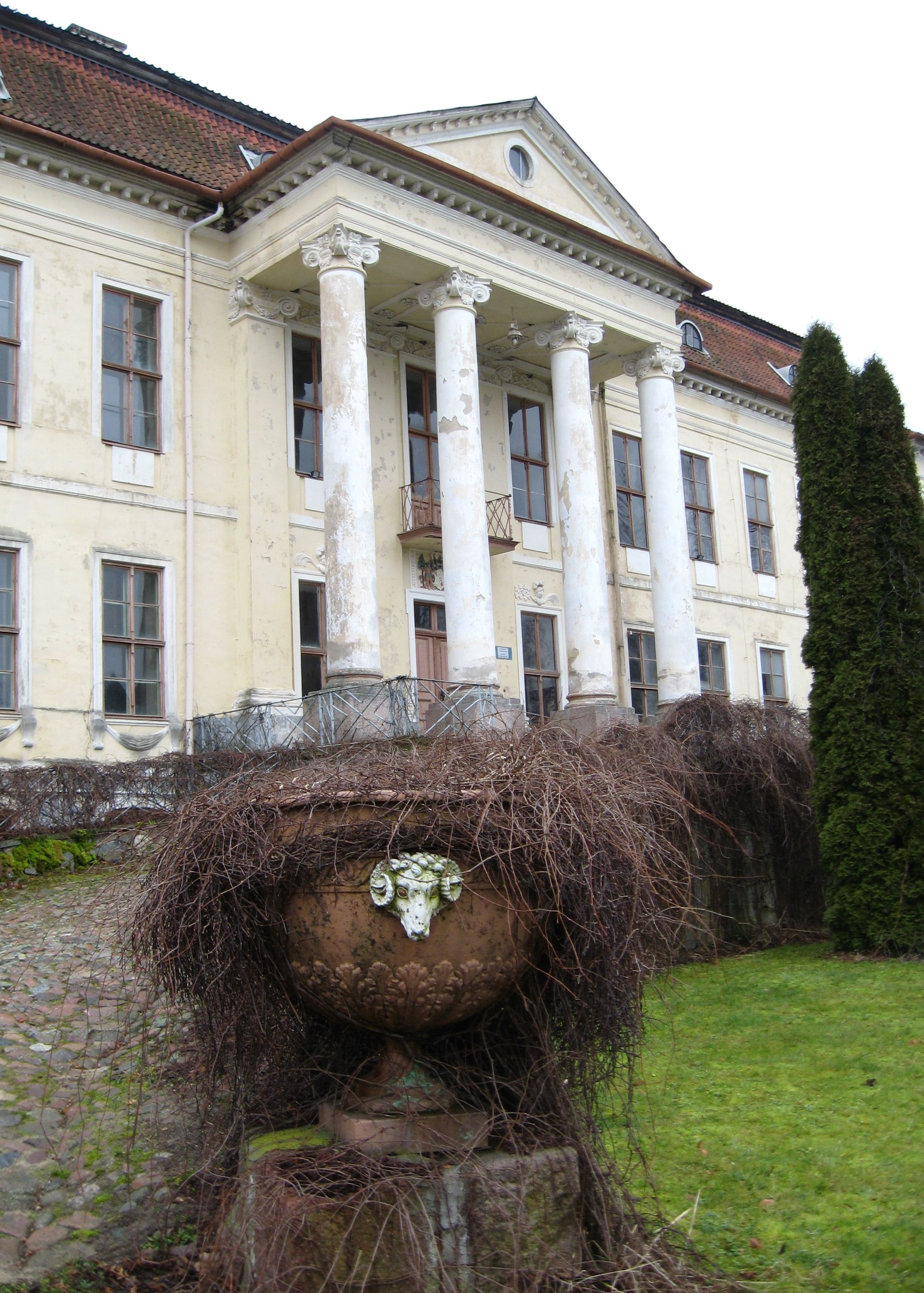 Palace w Drogosze (Groß Wolfsdorf) in Poland